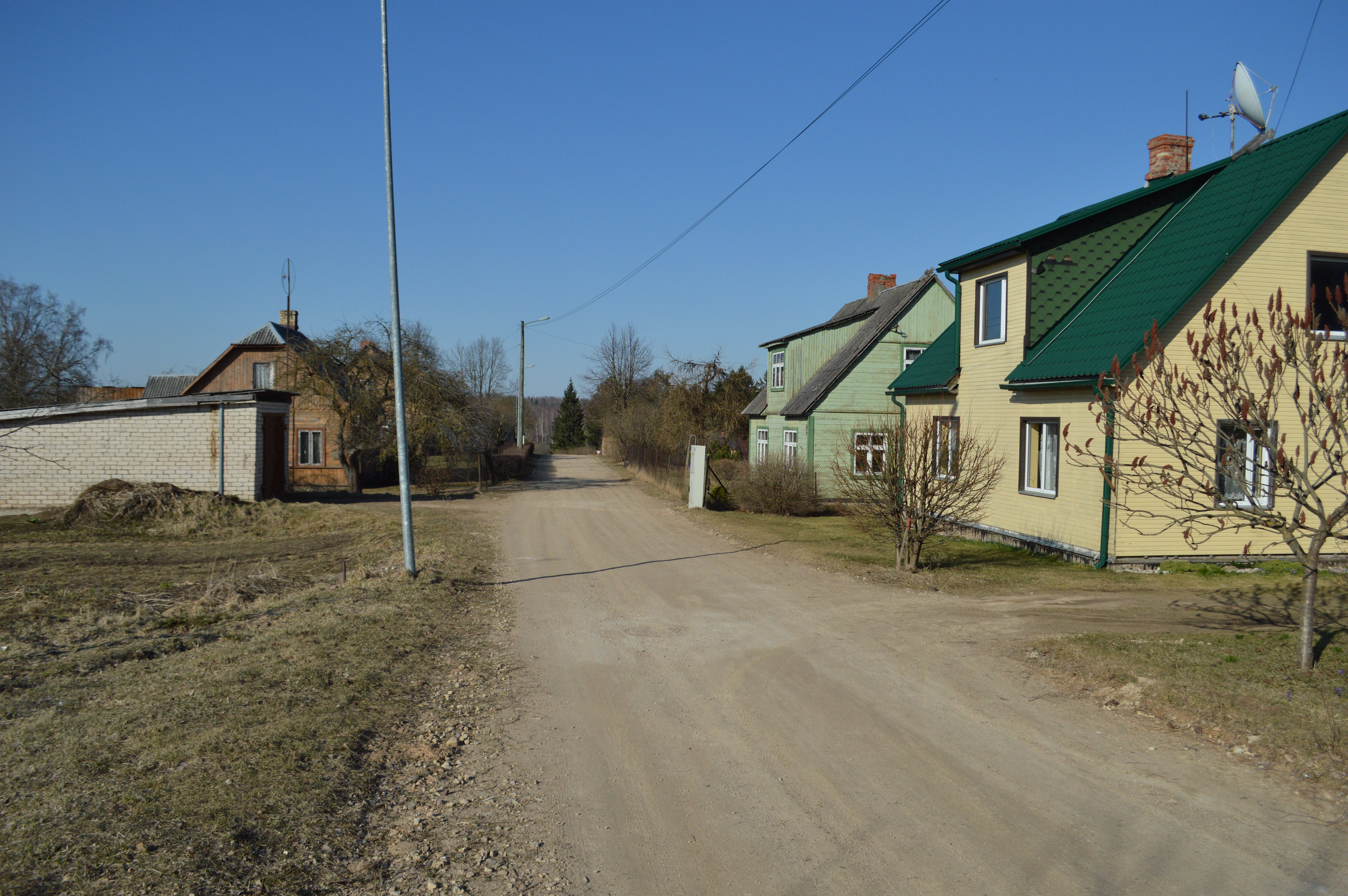 Pavasara street, Viesīte town.